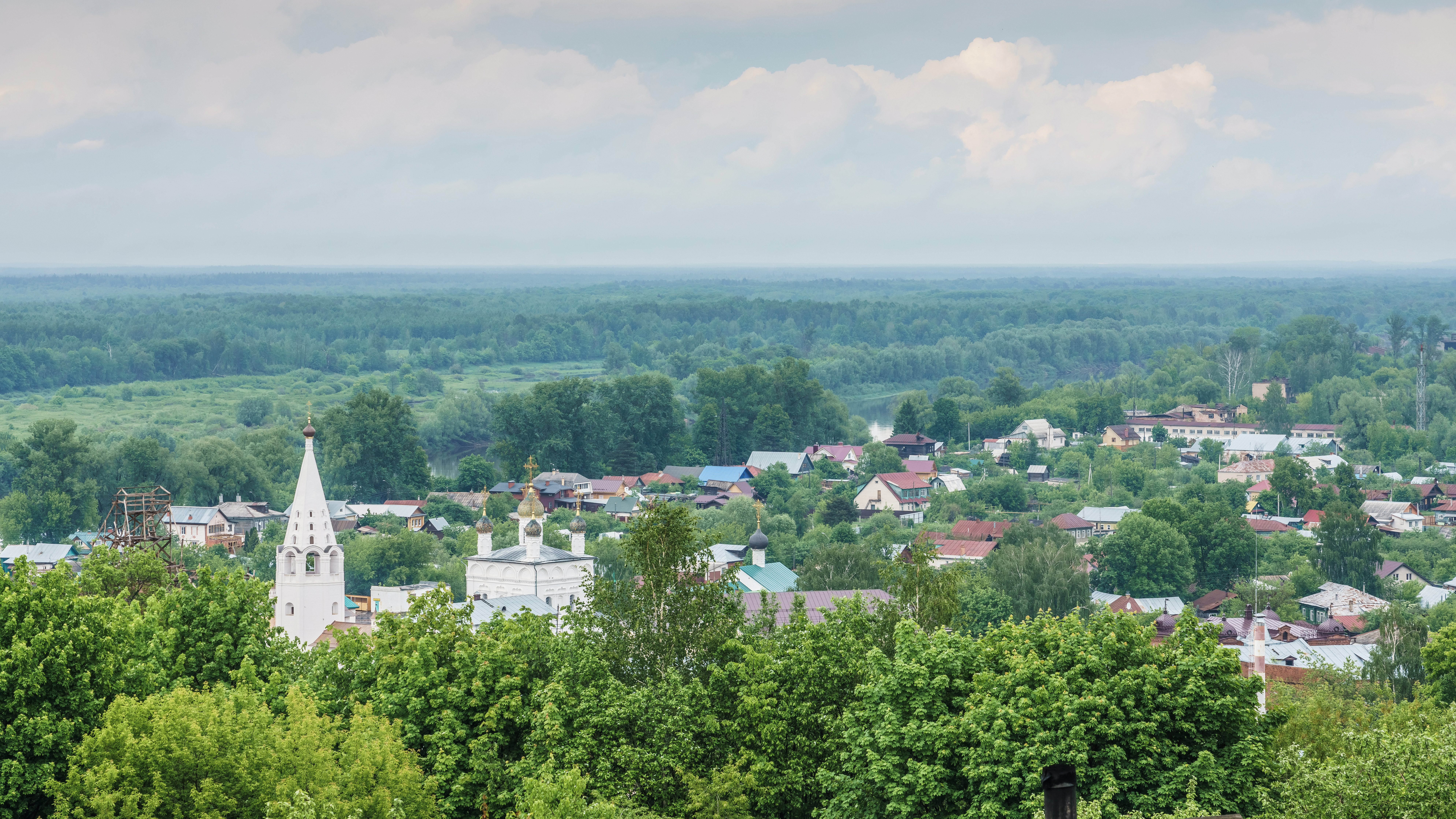 View from the former rampart at Nikolsky Monastery in Gorokhovets, Vladimir Oblast, Russia